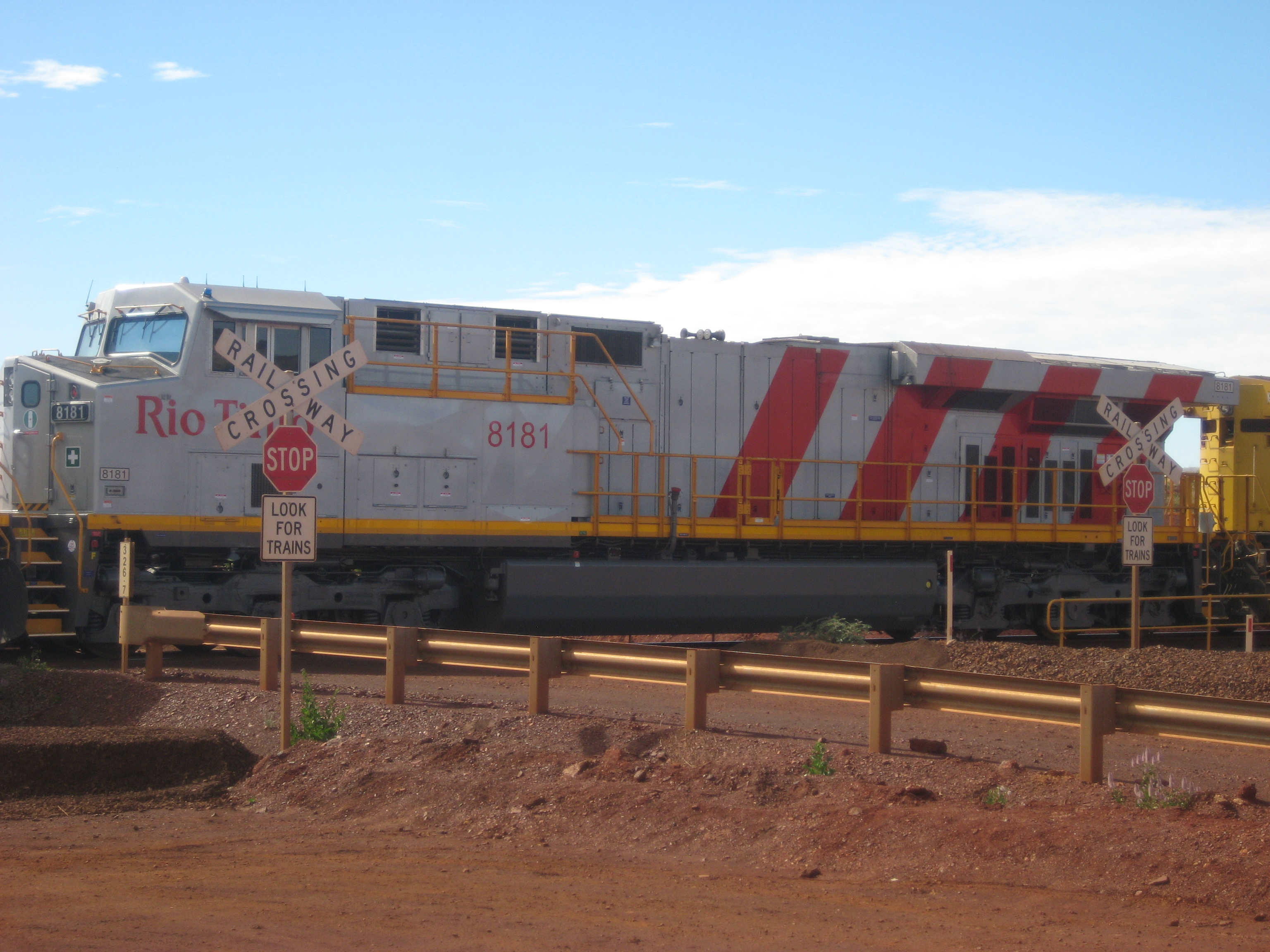 An iron ore train loading at the Brockman 4 mine, Western Australia.